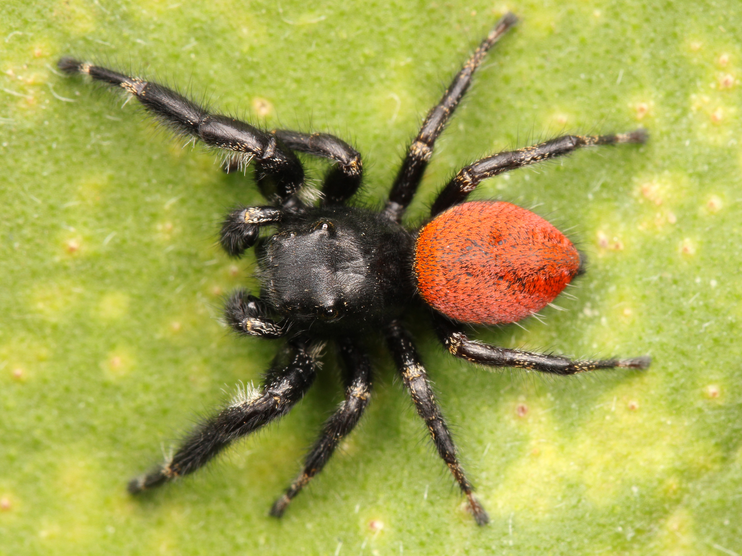 Adult male Phidippus johnsoni jumping spider. Found at China Camp State Park, California.